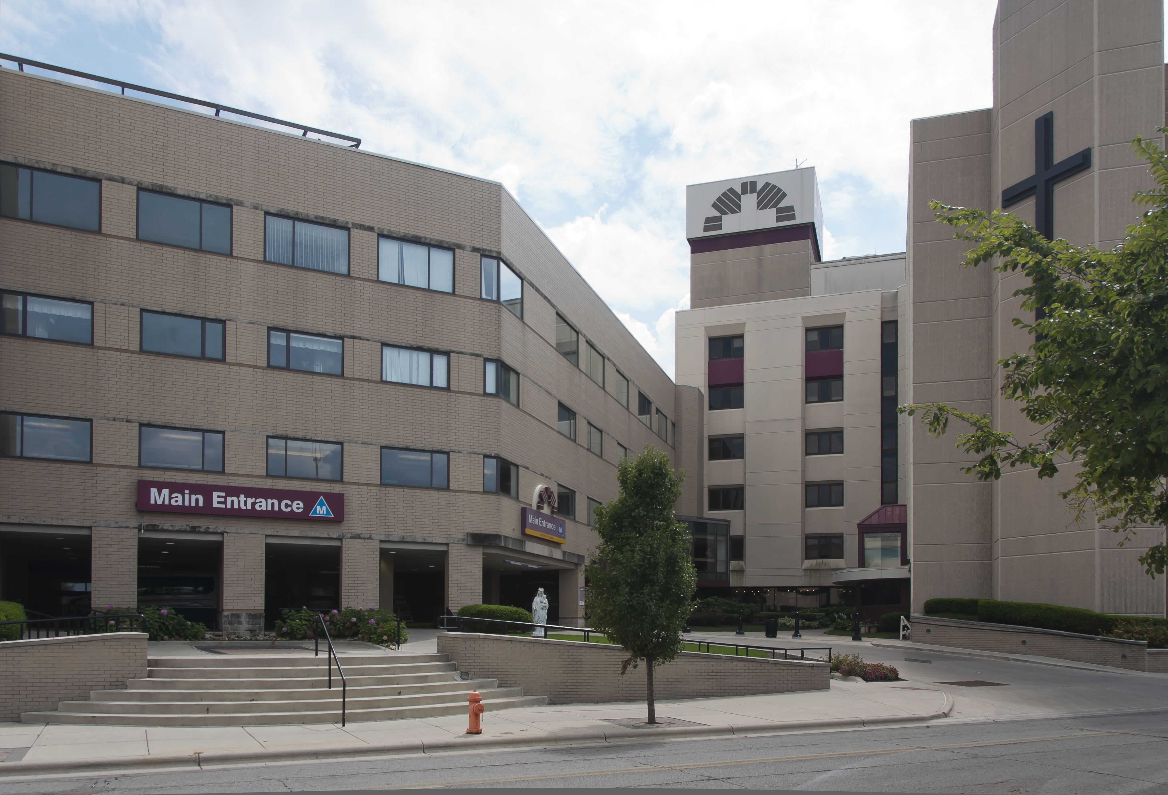 Main Entrance for for Mount Carmel West taken from the north at the end of August of 2017